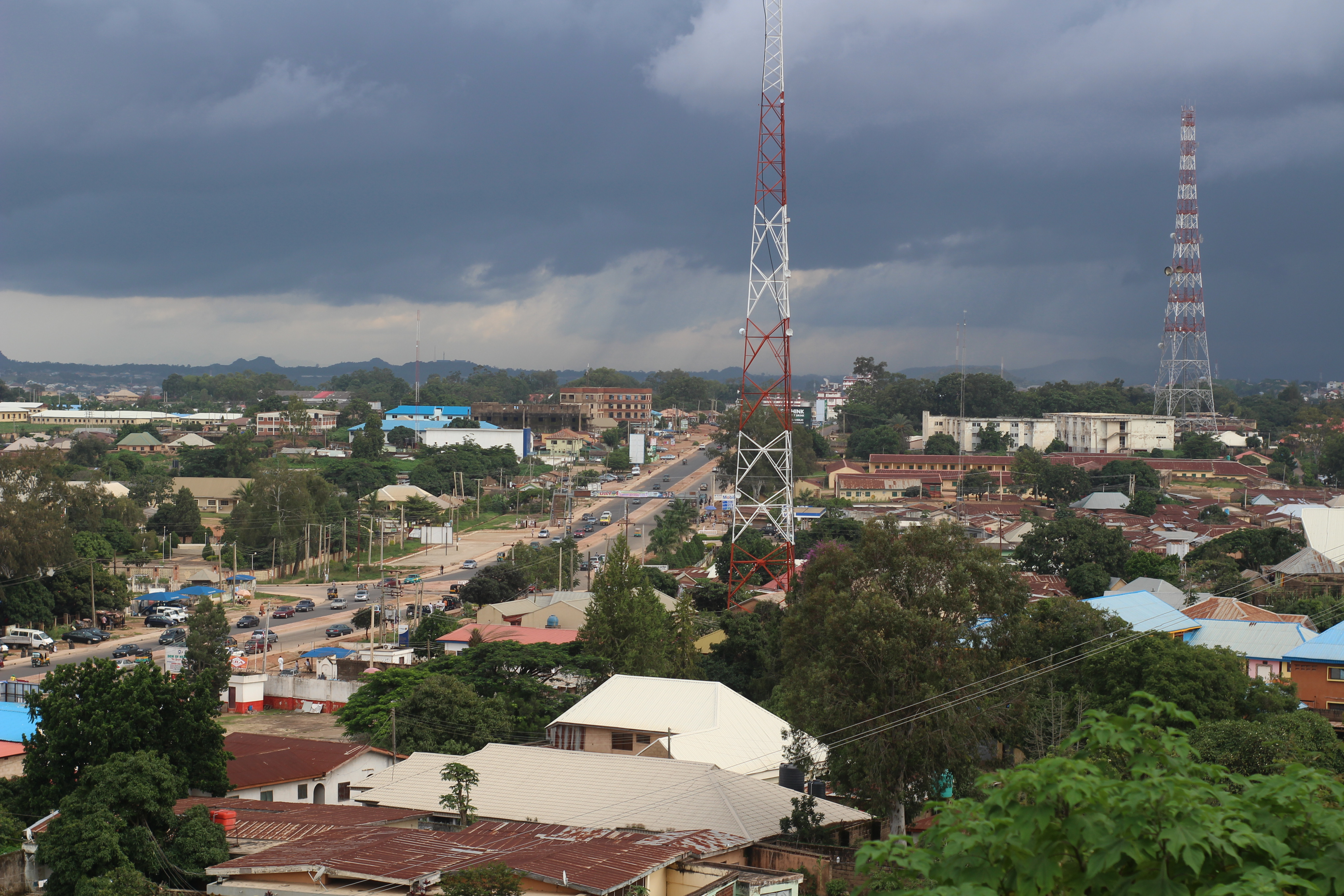 Looking south over the Jos-Bukuru expressway